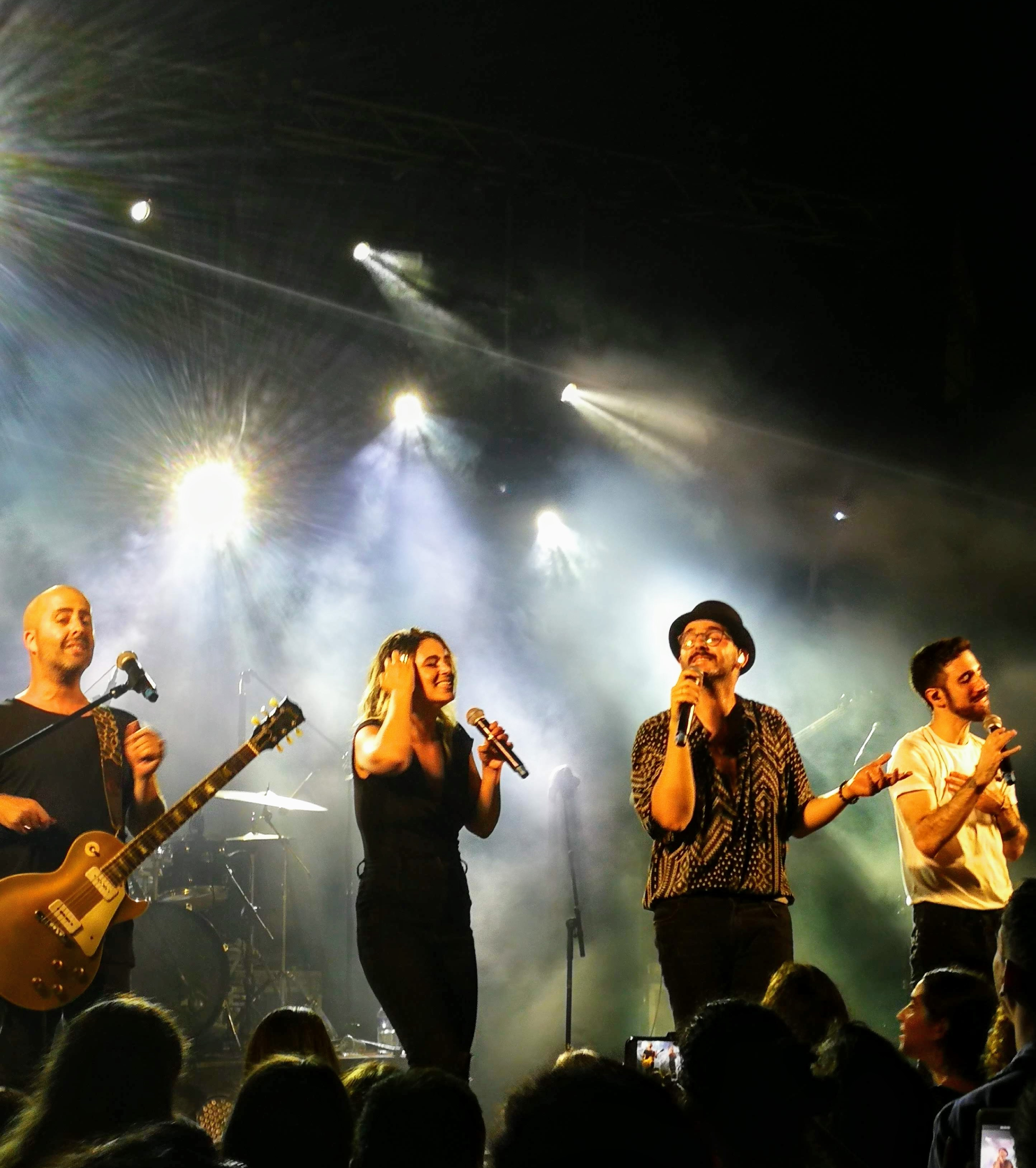 Elai Botner & Yaldei Hahutz performing, August 2018 From right: Tom Gefen, Ohad Shragai, Adar Gold, Elai Botner